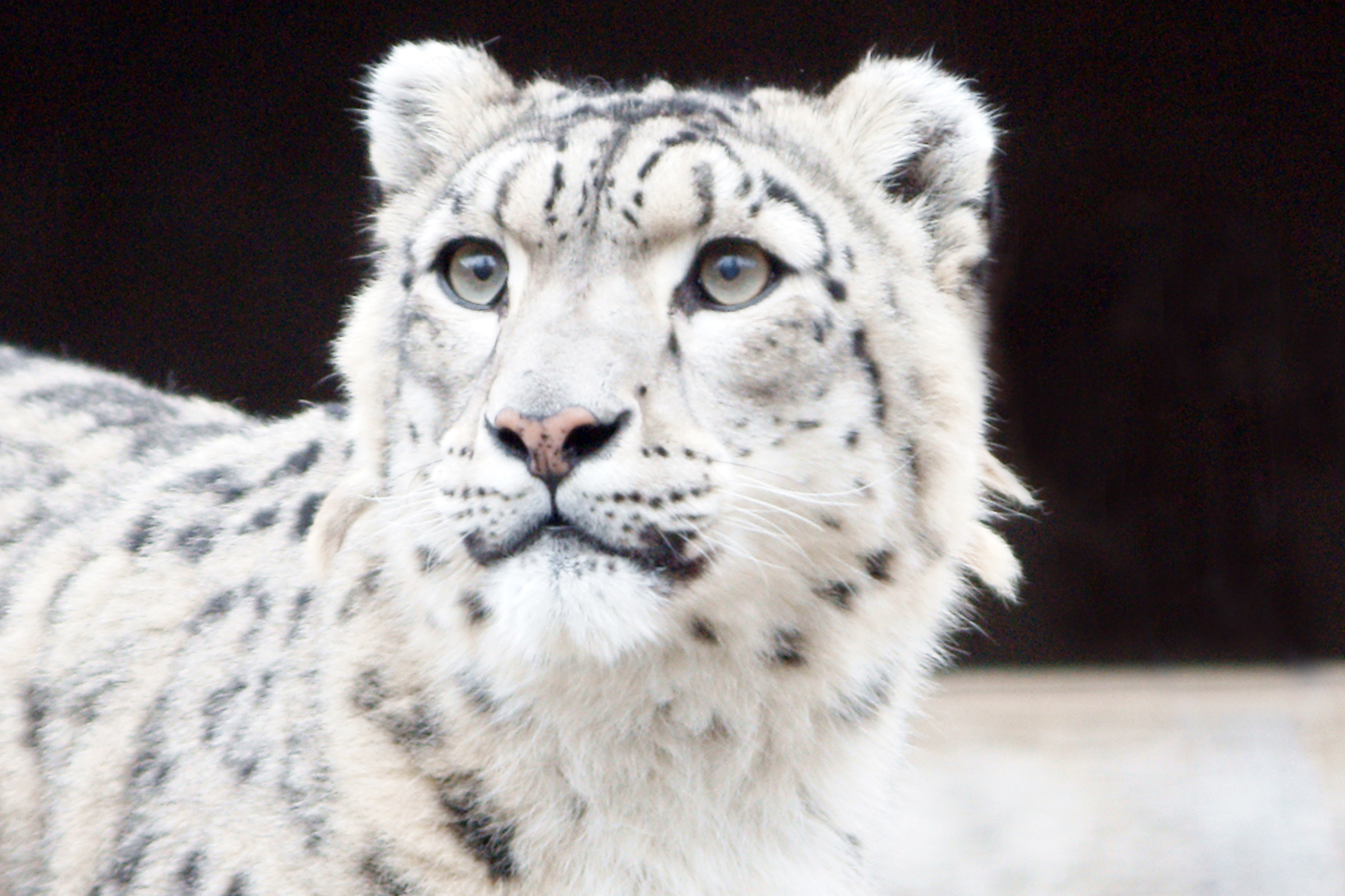 A snow leopard pictured in Moscow Zoo